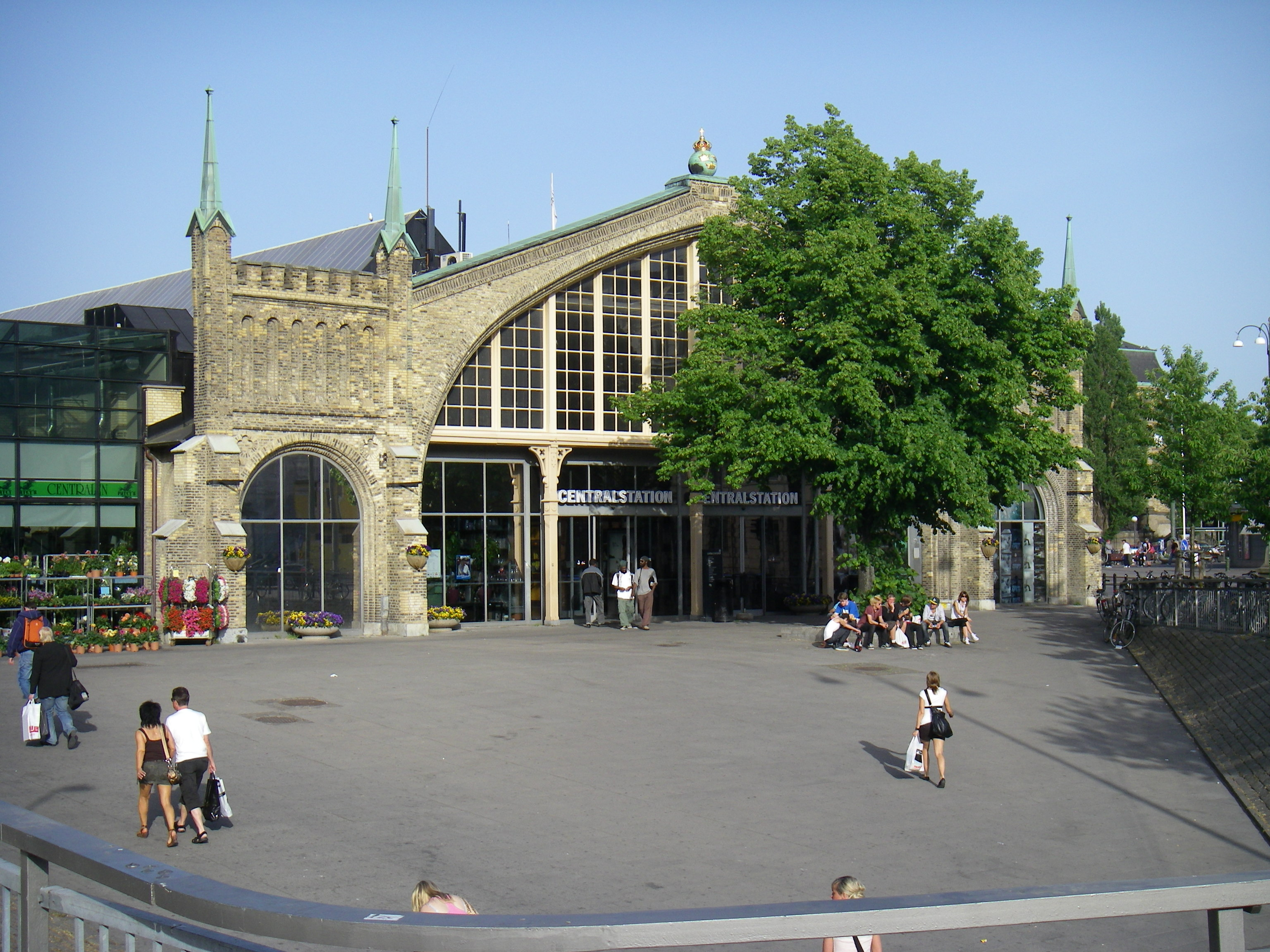 West entrance of Gothenburg Central Station